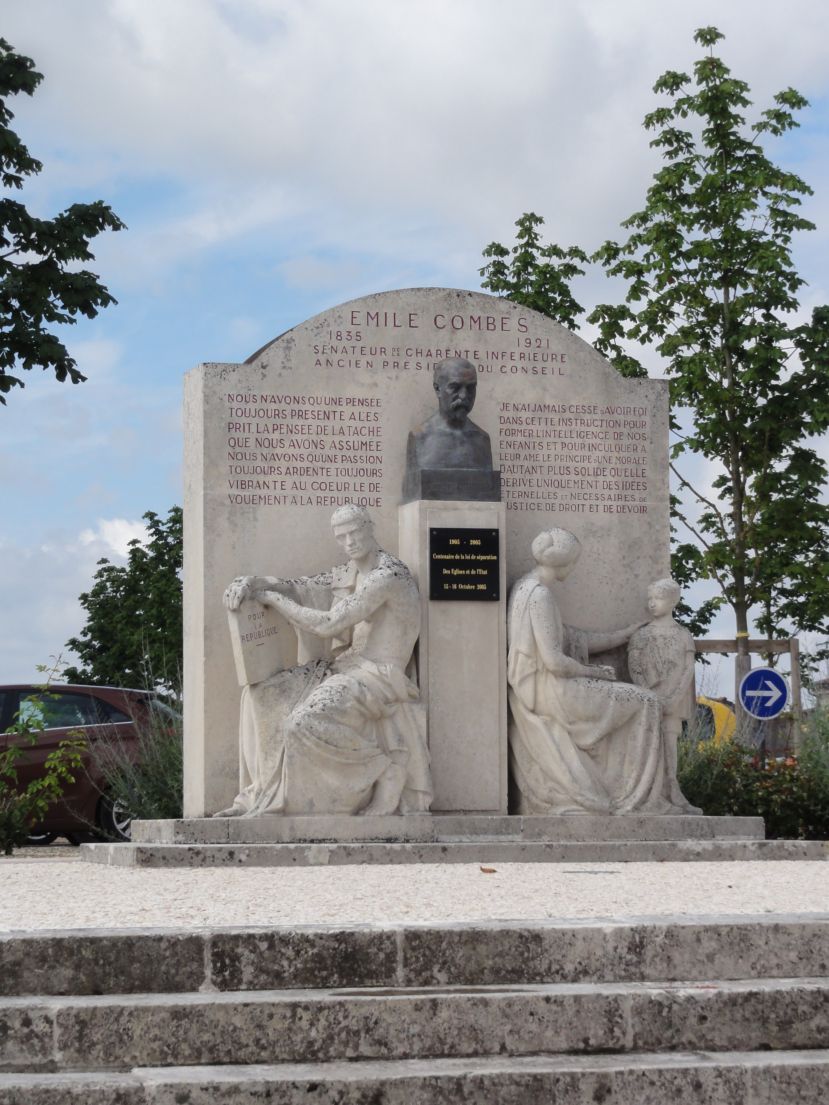 Pons (Charente-Maritime) memorial Emile Combes